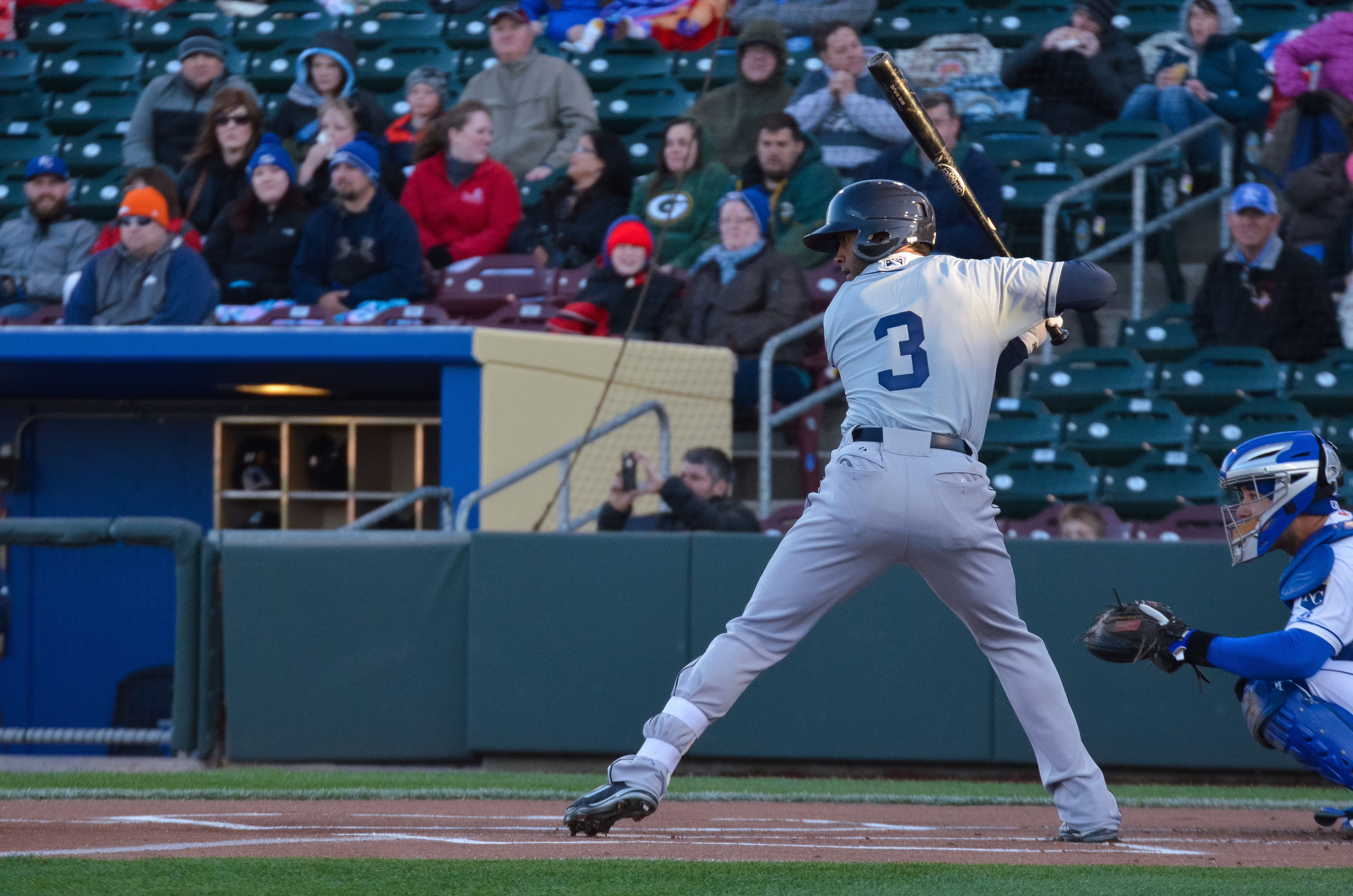 Isaac Galloway bats for the New Orleans Zephyrs against the Omaha Storm Chasers in 2016.